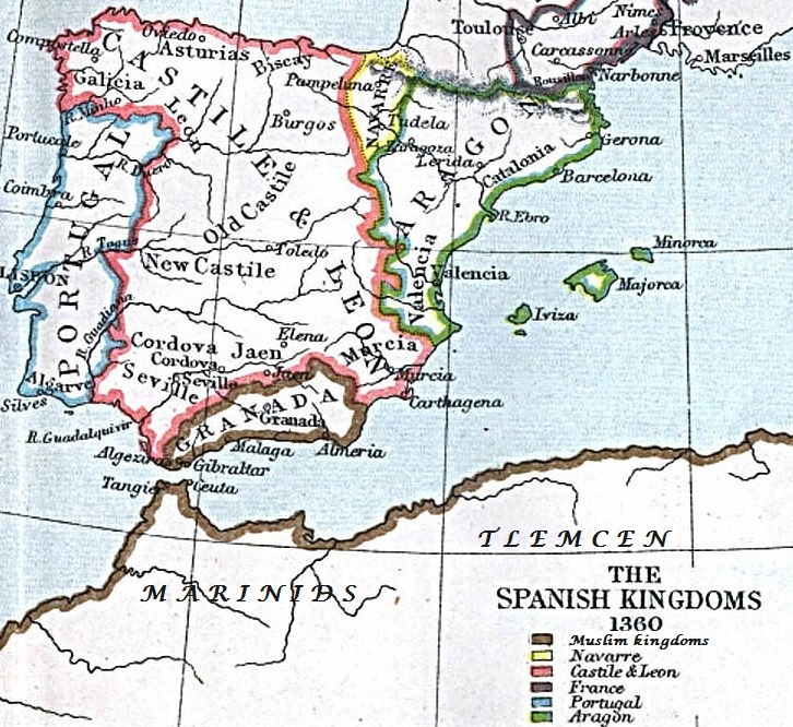 A map of Spain and Western North Africa circa 1360. Spanish kingdoms, cities and borders are well-annotated but not the North African ones.